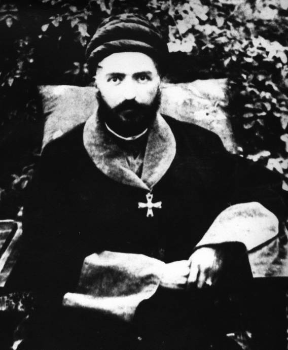 Mar Shimun XIX (XXI) Benyamin (1887—1918), was a Catholicos Patriarch of the Assyrian Church of the East.